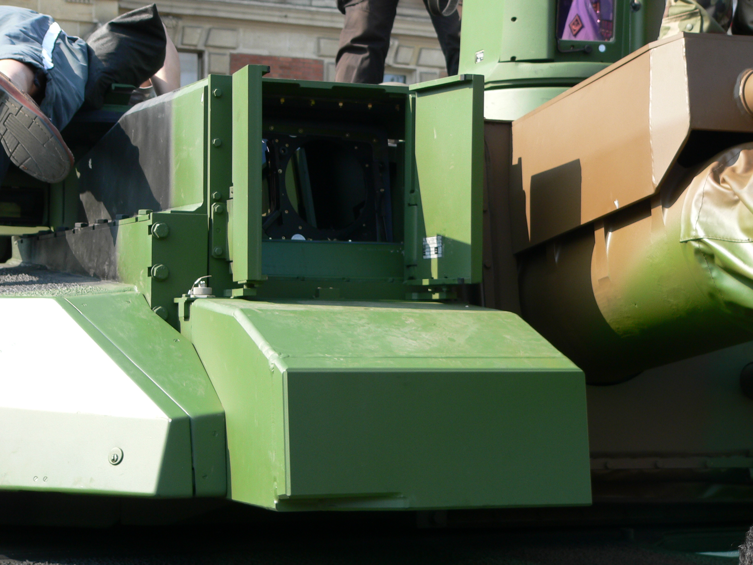 Leclerc main battle tank Military parade, Avenue des Champs-Élysées (Paris), 14 July 2006